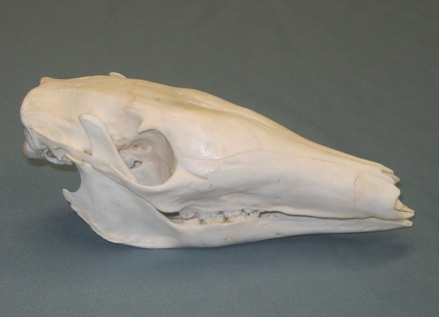 An Aardvark Skull From the Collections of Skulls Unlimited International.